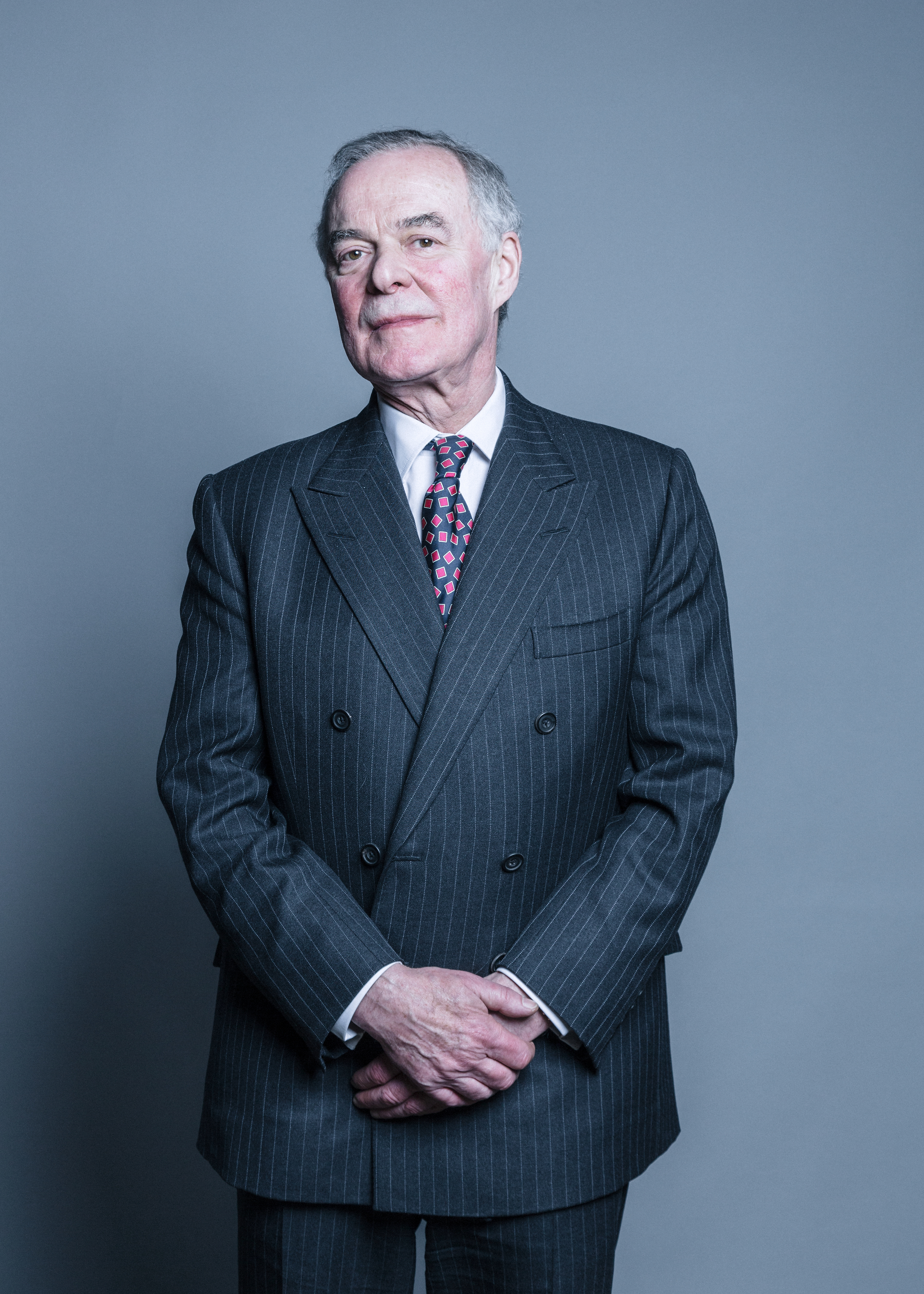 Official portrait of Viscount Trenchard